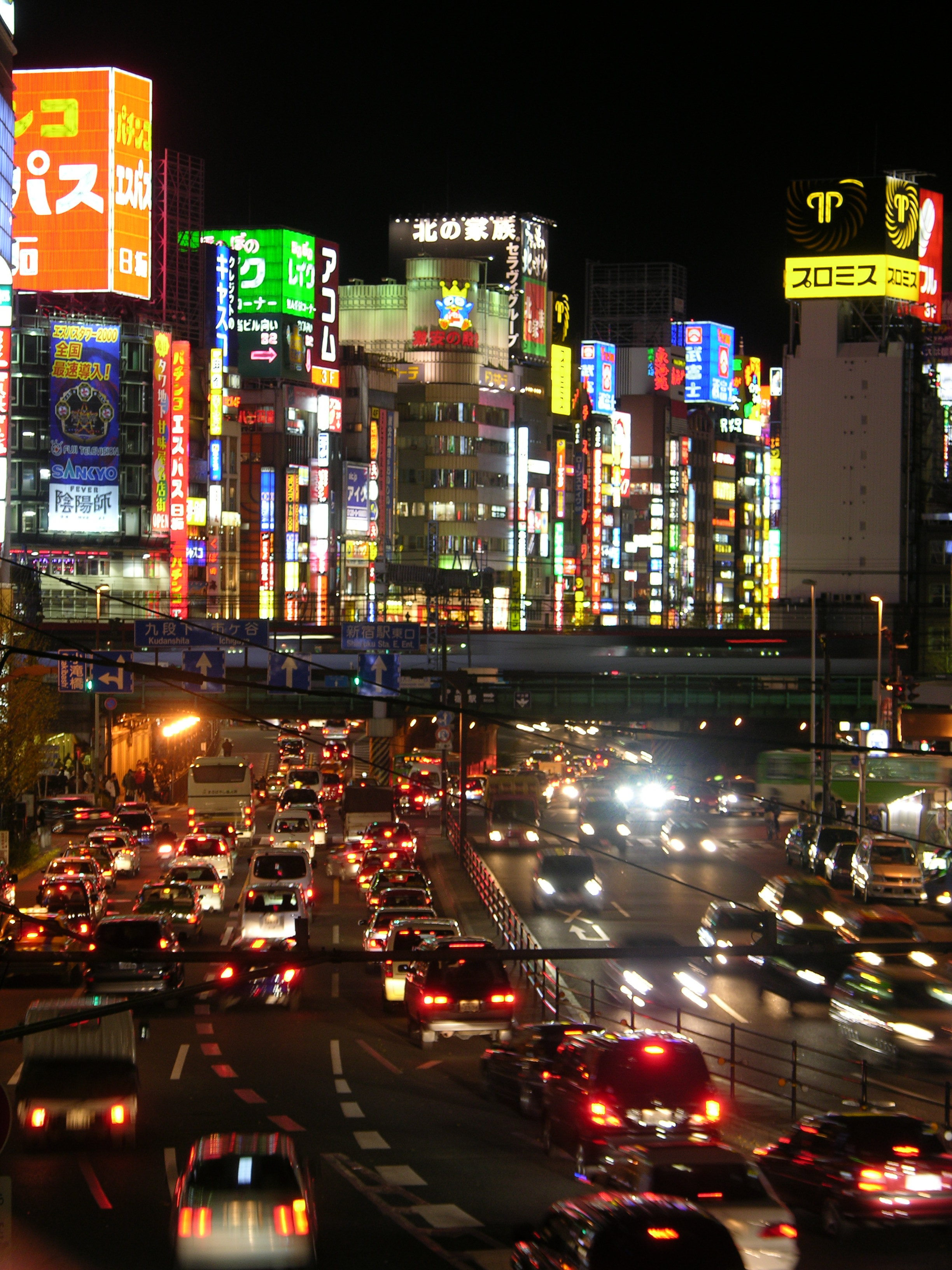 Author: Zaida Montañana. December 2005. Nikon Coolpix 8 MPixels